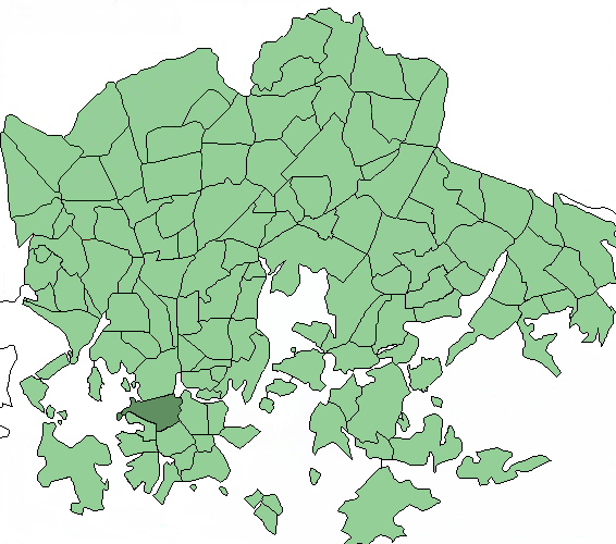 Districts of Helsinki, Etu-Töölö highlighted.